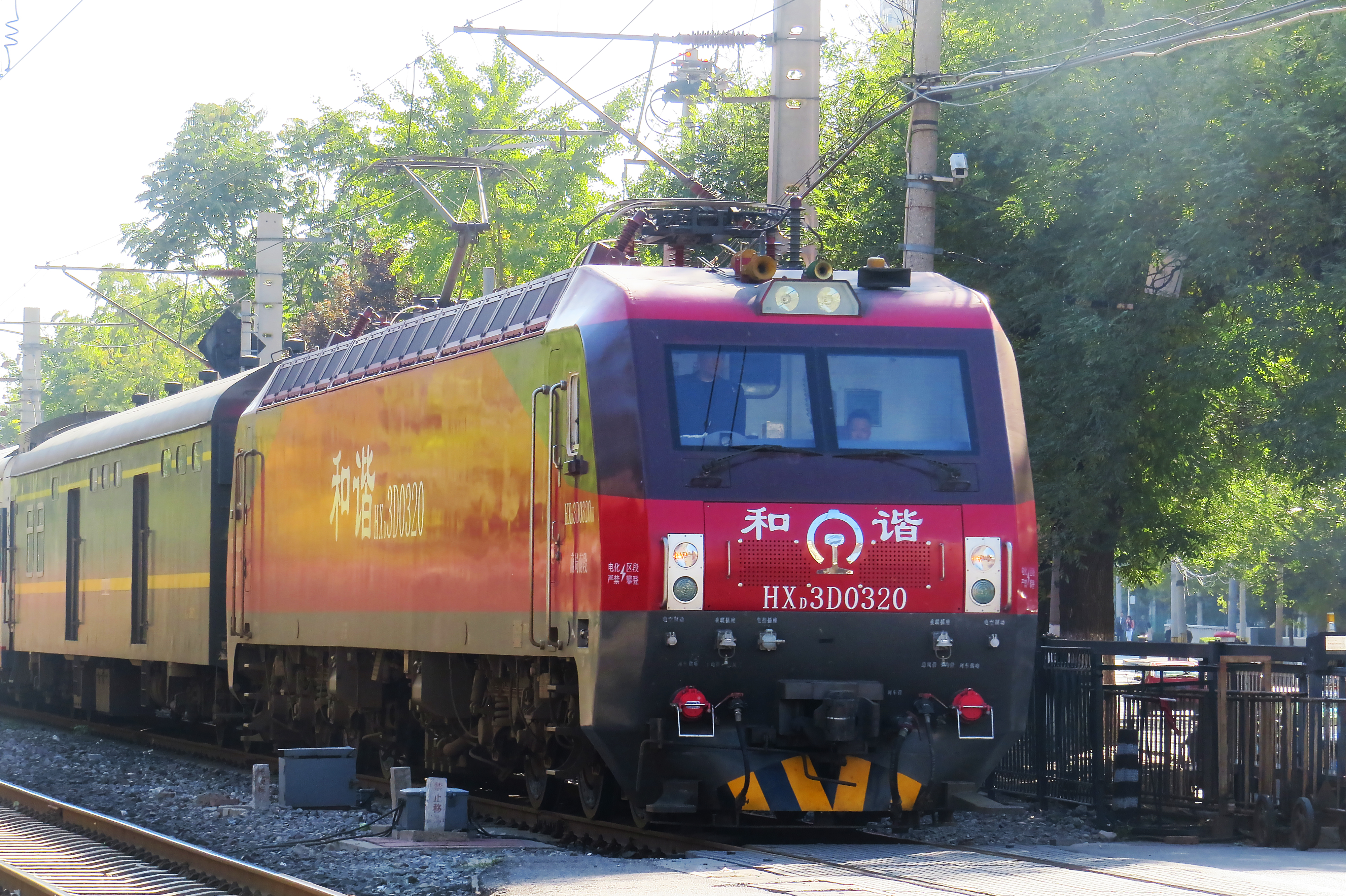 Z108 from Shenzhen. This train, started in 2001, is the "Top Express" on Beijing-Kowloon Railway.